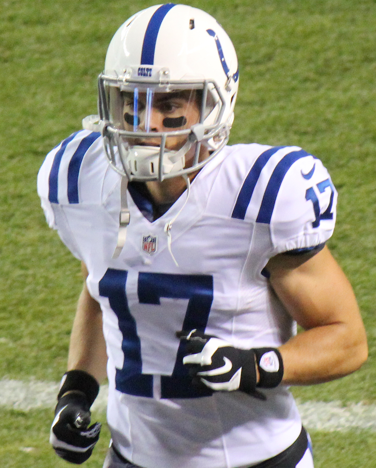 Griff Whalen, a player on the National Football League.